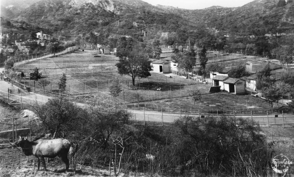 Griffith Park Zoo Postcard from the Frasher Foto Postcard Collection